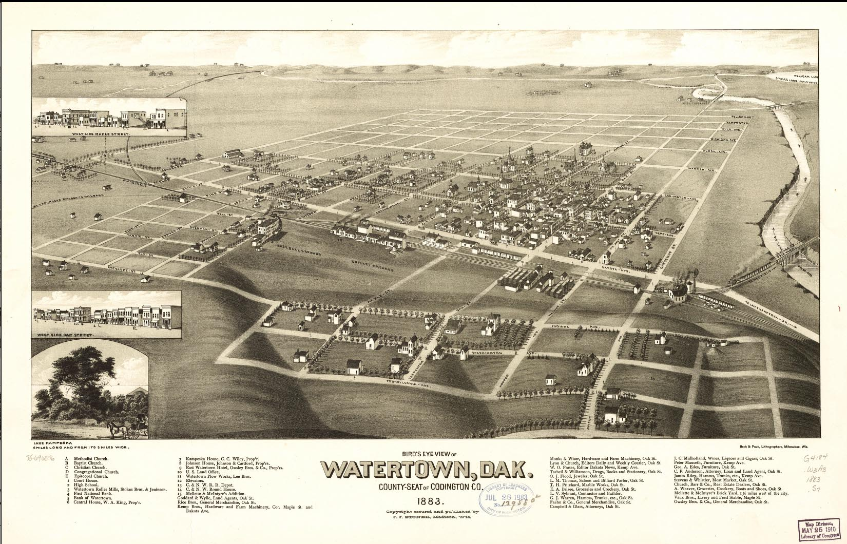 1883 bird's eye illustration of Watertown, South Dakota, USA. The Big Sioux River is on the right and Pelican Lake can be seen in the top right corner.